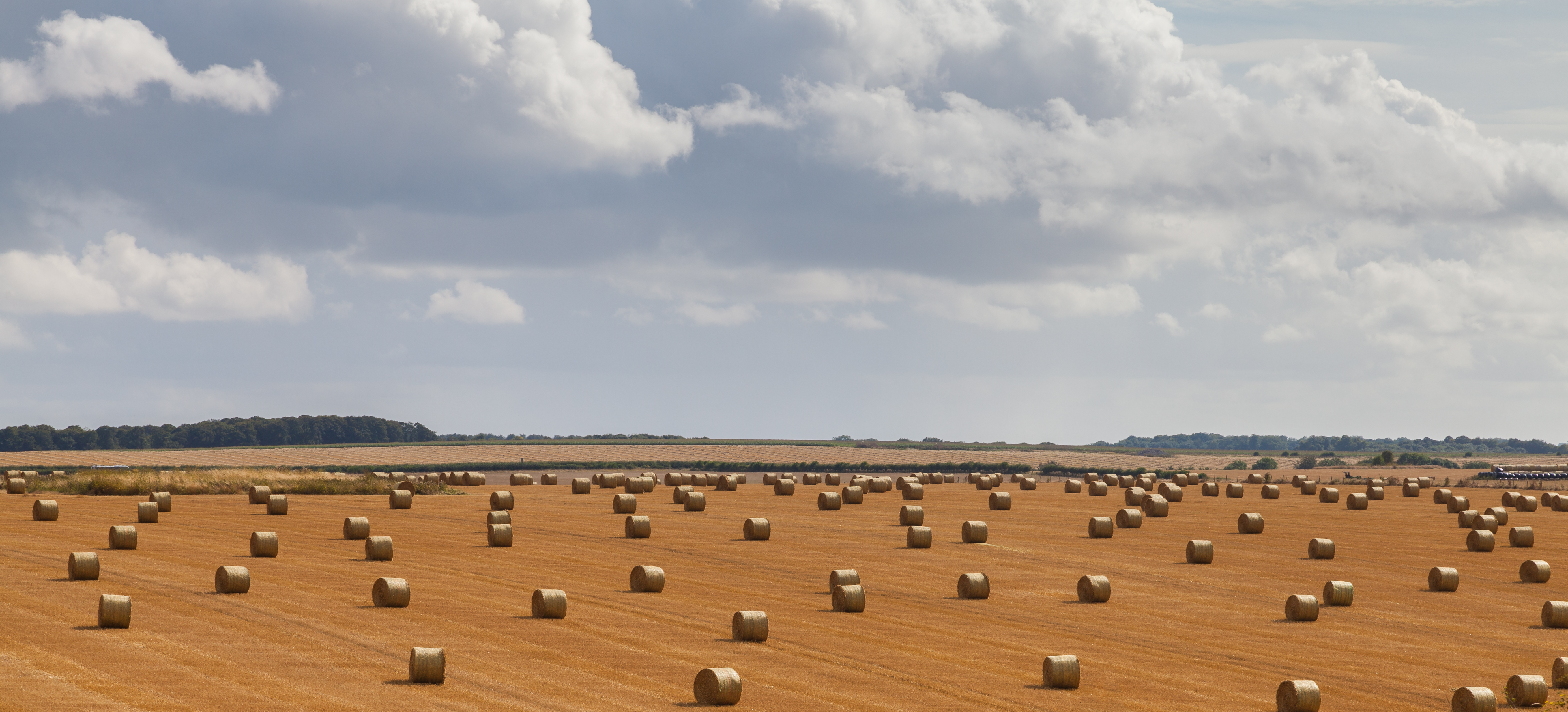 Straw bales on a stubble field, Wiltshire, England